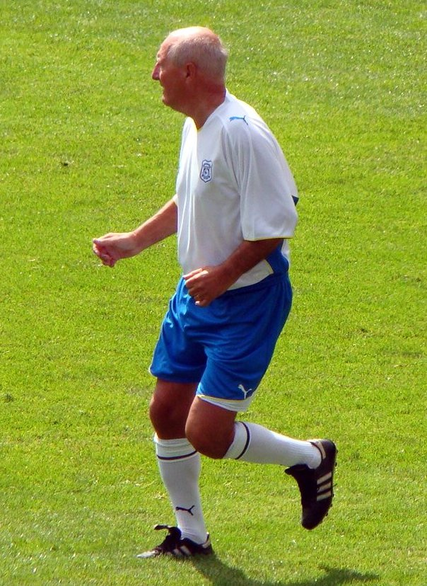 04/07/09 Cardiff City Legends, Cardiff City Stadium, Cardiff, Wales